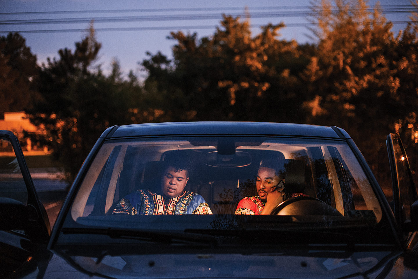 Ousala Aleem and iLoveMakonnen featured in The Fader Magazine